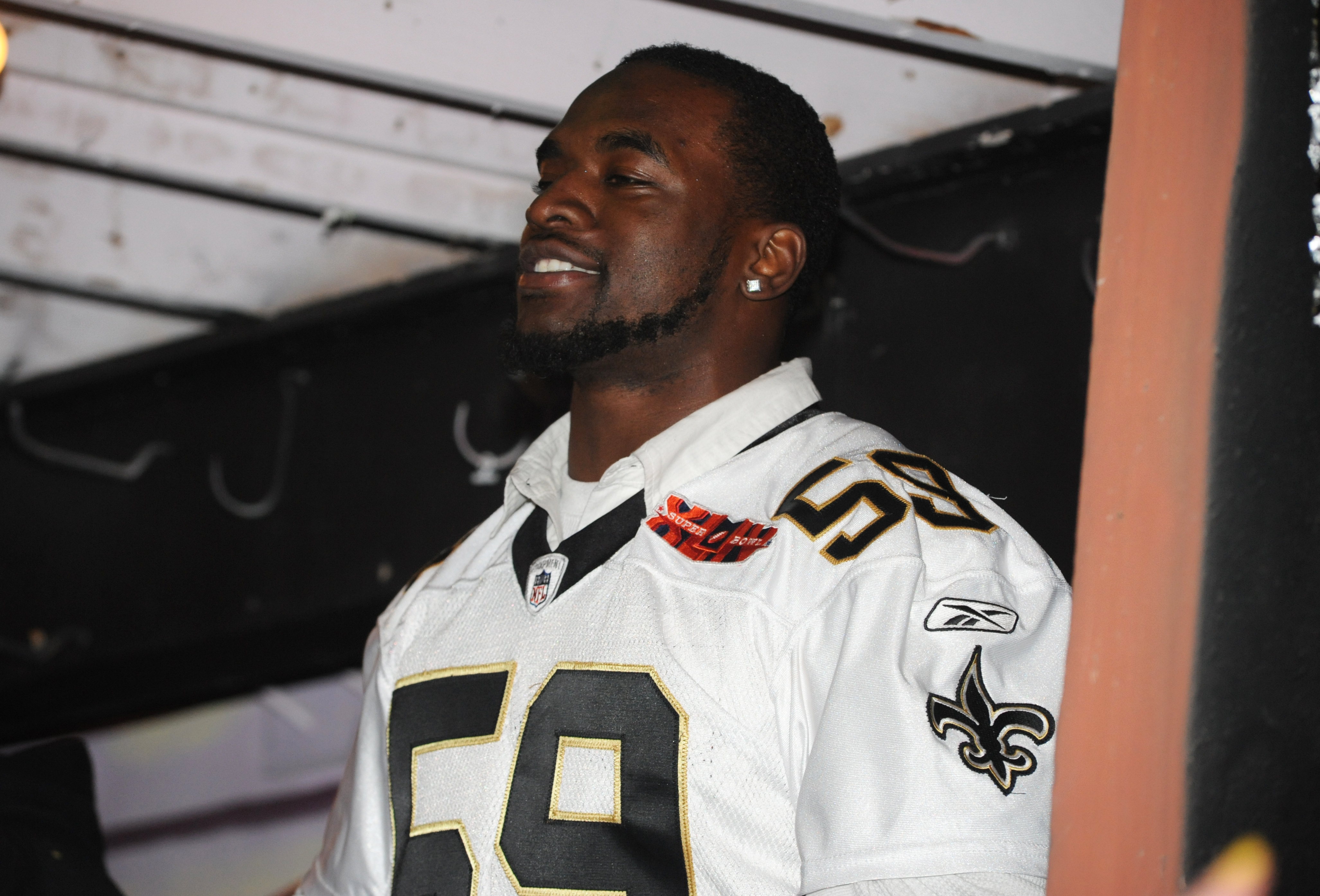 February 9, 2010